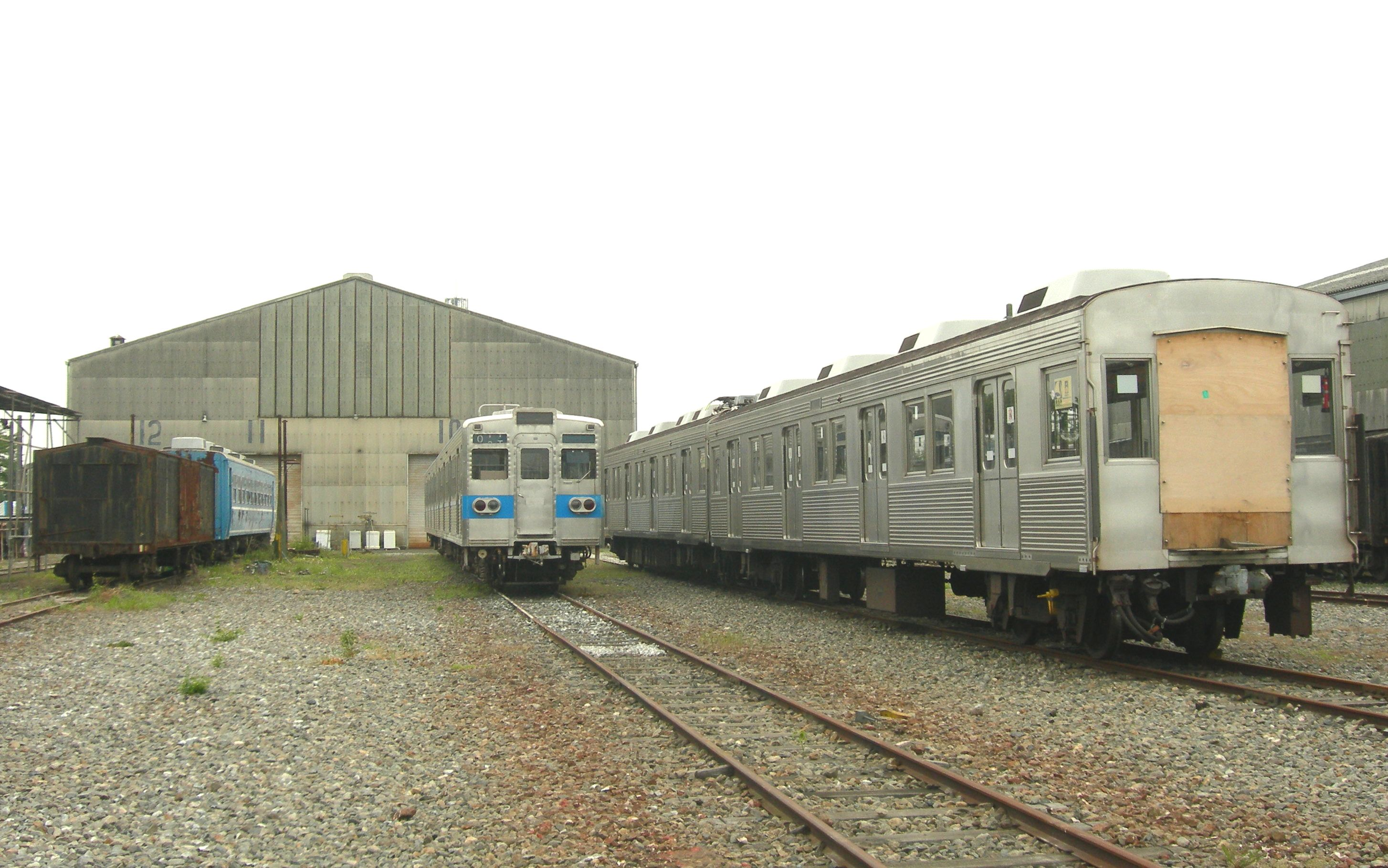 Rolling stock at the Hirosegawara Yard